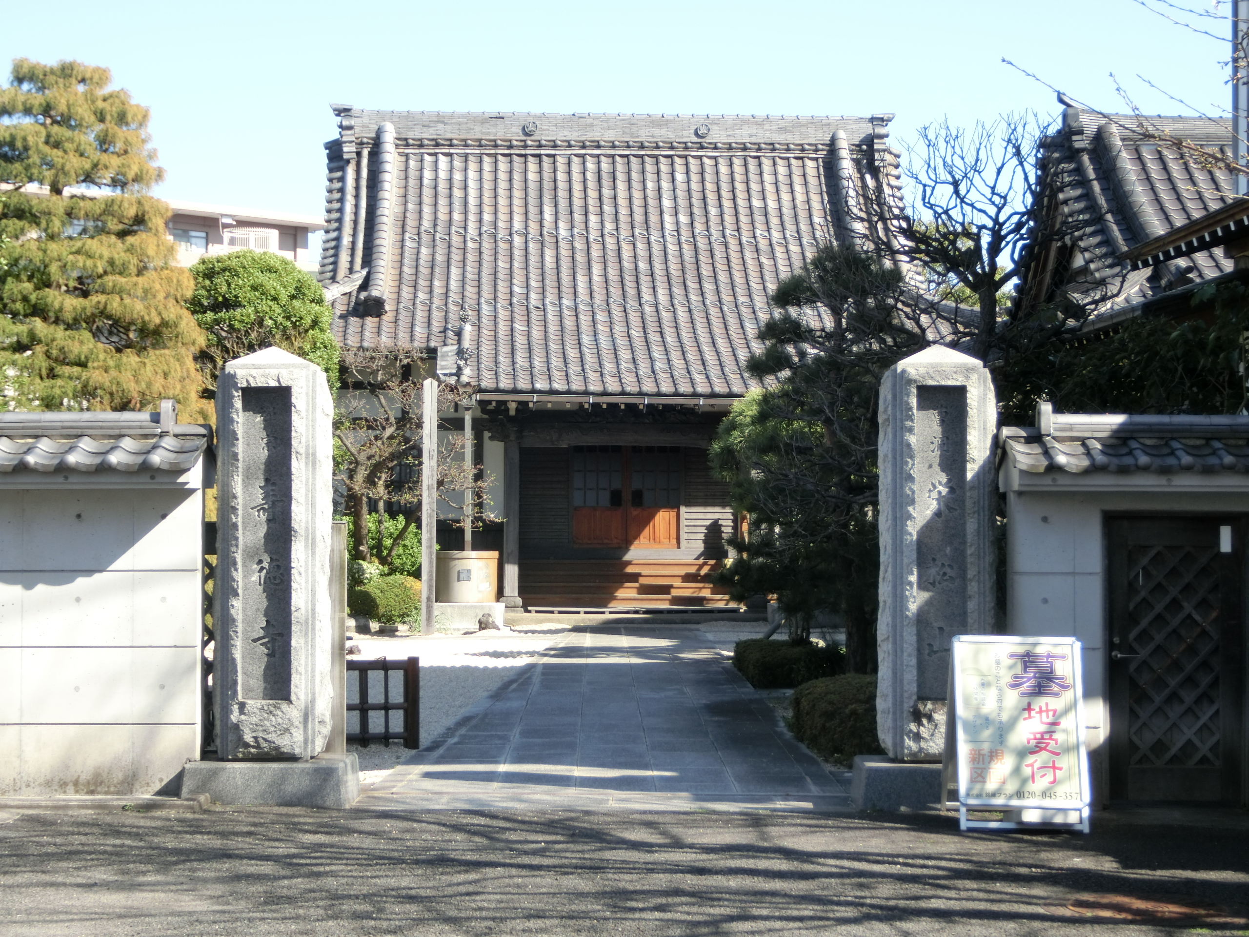 Jutoku-ji (Yokohama)